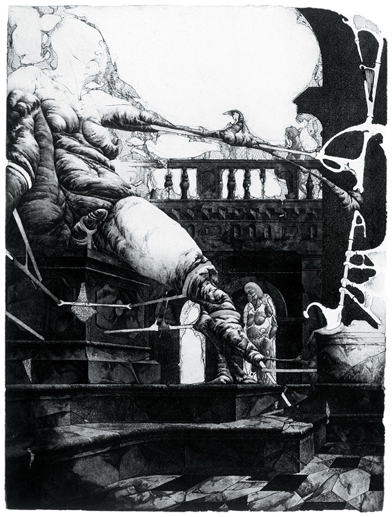 "Great Hermafrodit" — Ihor Podolchak. Intaglio print; Zinc plate 58х44 cm